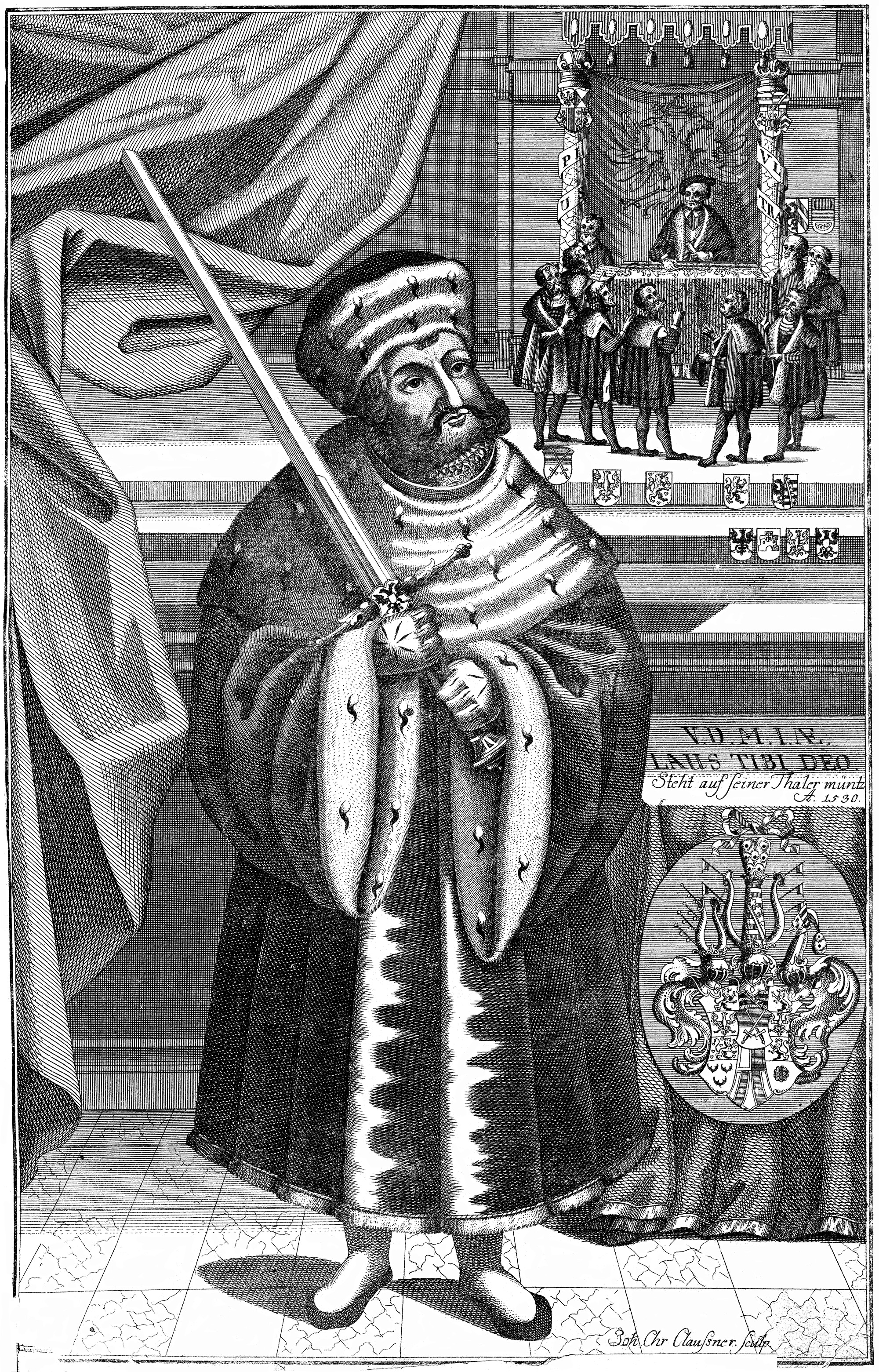 An image of Johann, also known as John the Constant or John the Steadfast, the Elector of Saxony (r. 1525-1532). John’s coat of arms is to the right, as the Augsburg Confession is presented to Holy Roman Emperor Charles V (r. 1530-1558) at the Diet of Augsburg in the background.